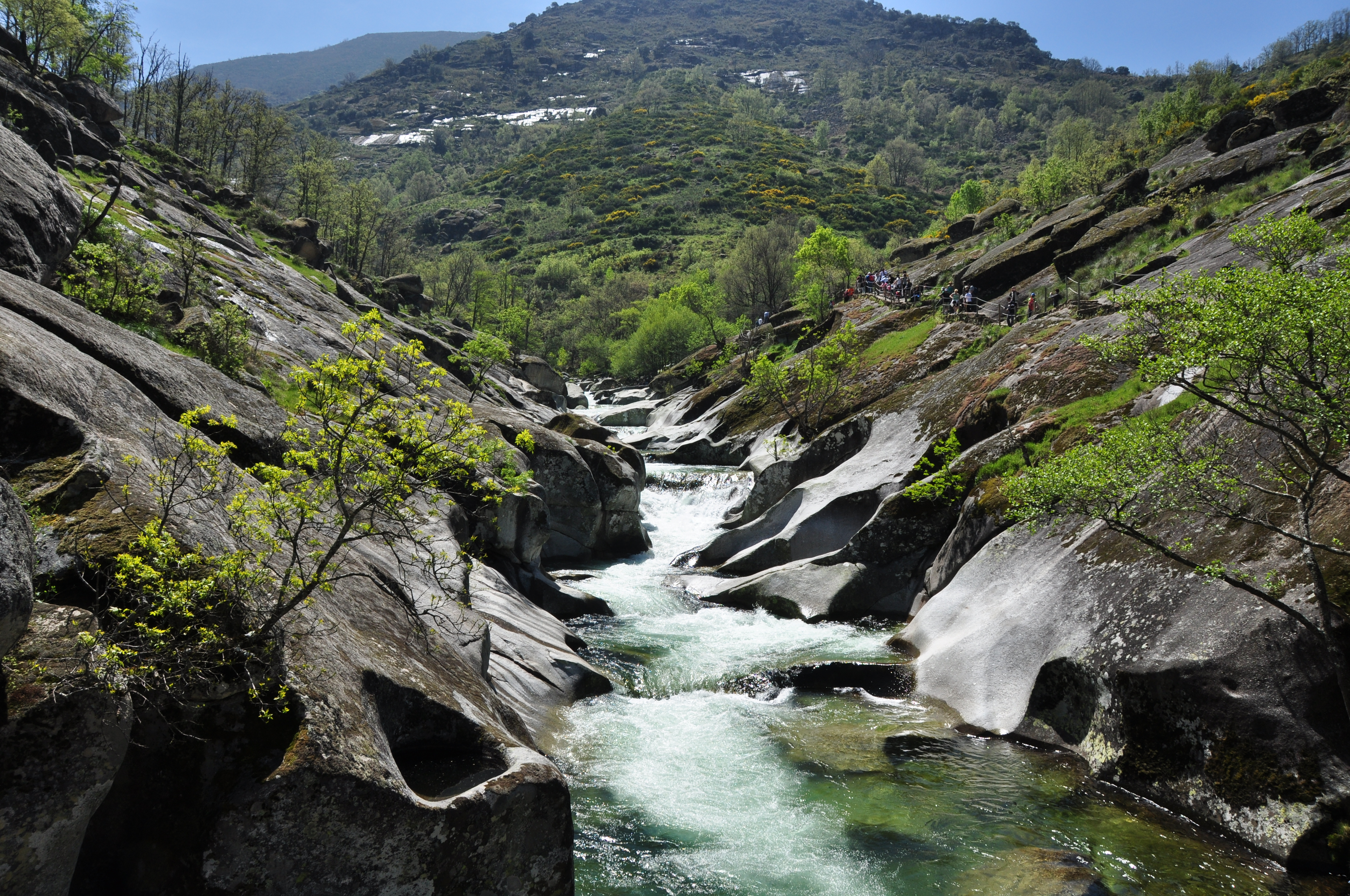 This is a photography of a Site of Community Importance in Spain with the ID: ES4320038. Natura2000 entry, EEA entry